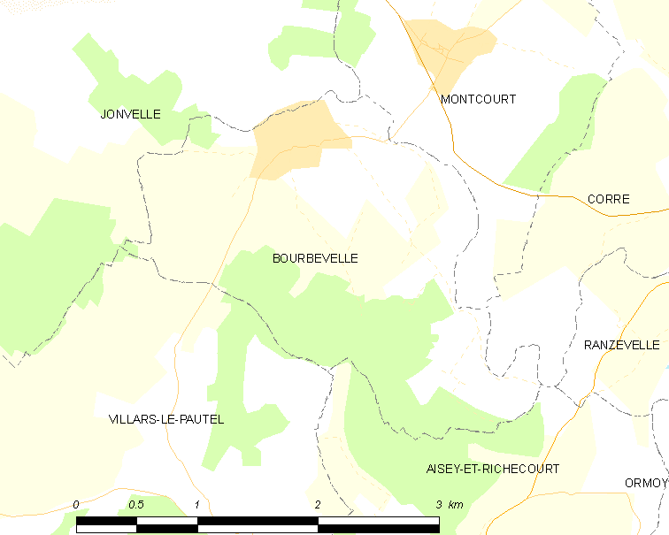 Map of French municipality